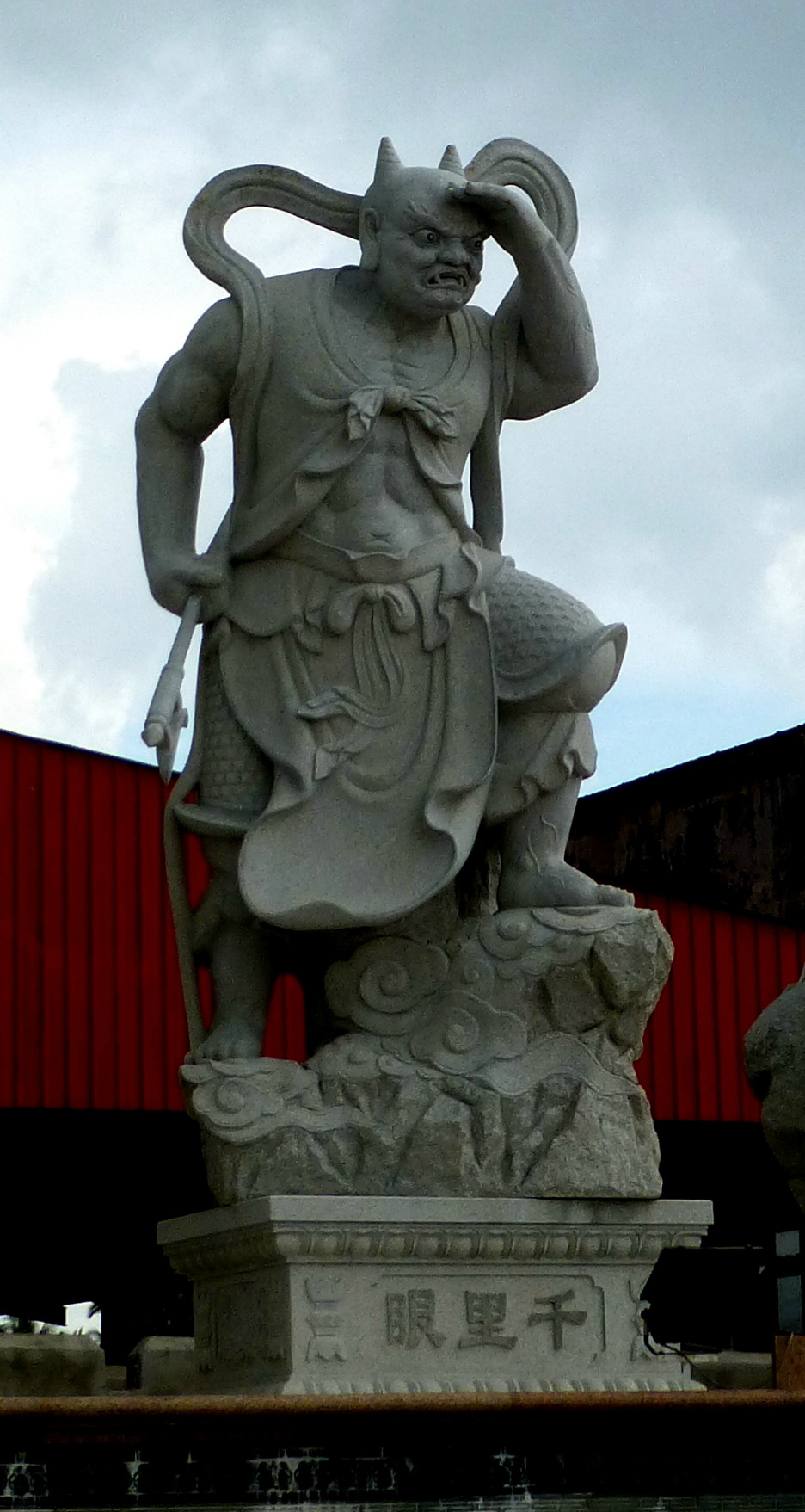 Qianliyan